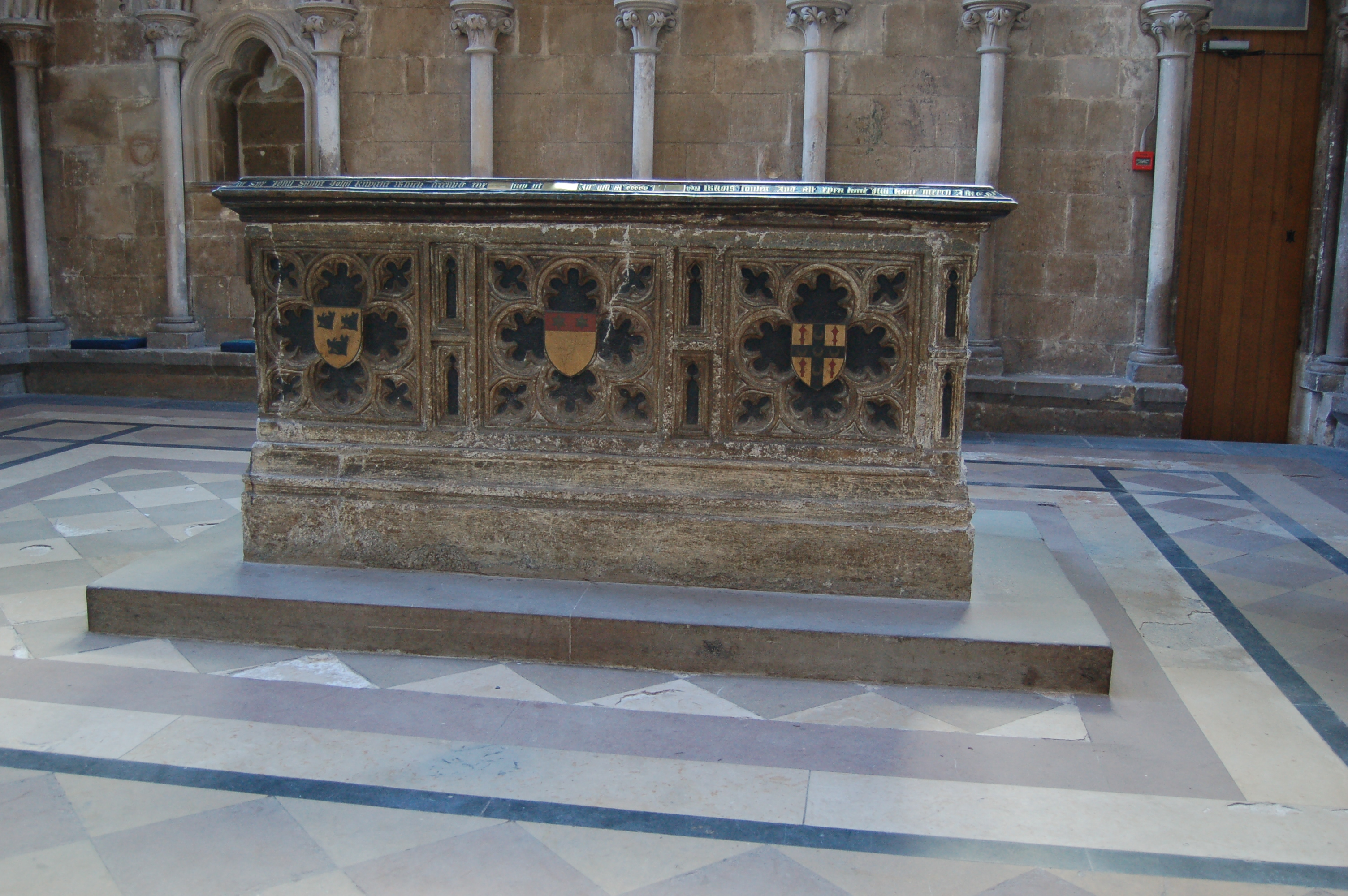 Sir Griffith Ryce's tomb in Worcester Cathedral.